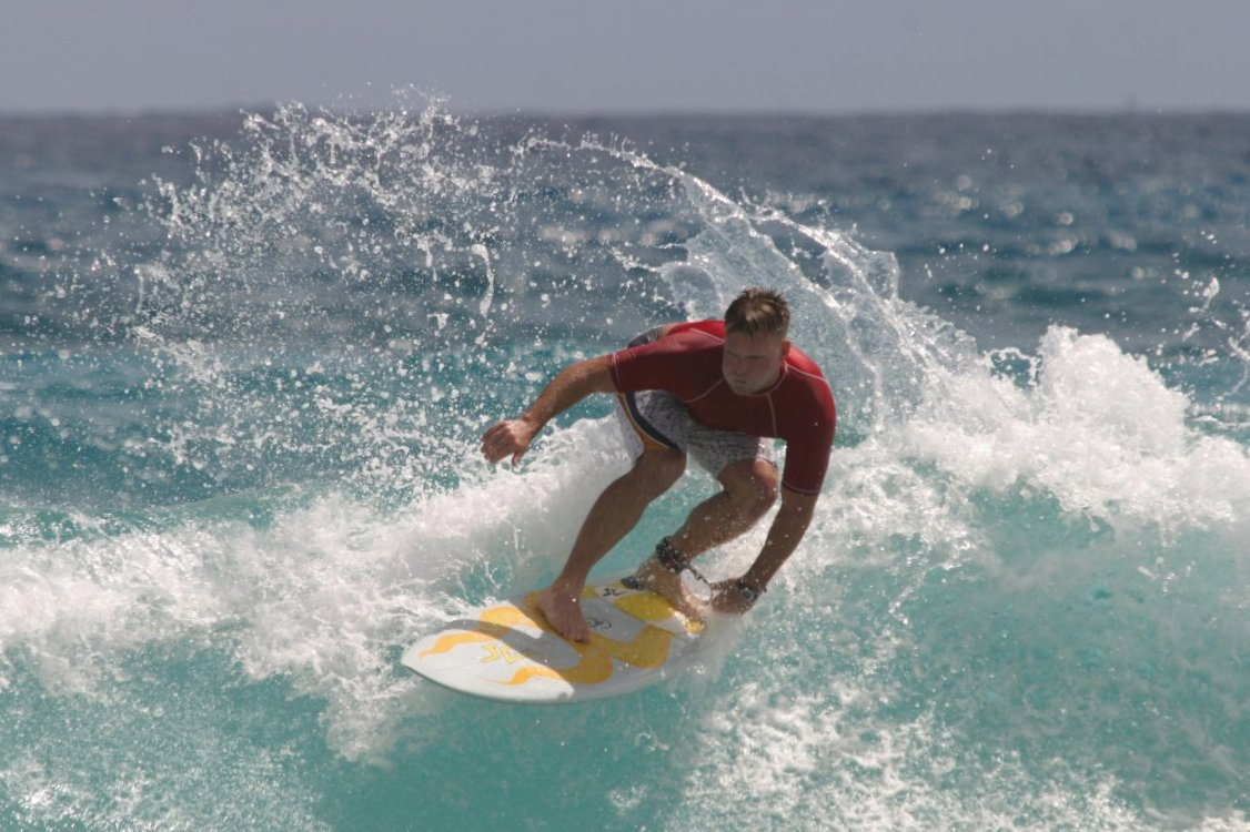 Surfing in Hawaii. A photograph of Kris Burmeister of the U.S. Marine Corps catching a wave during the first surfing contest of the year, the Pyramid Rock Surf Showdown. Photograph taken aboard the MCB Hawaii off the Marine Corps Base Hawaii in Kaneohe Bay